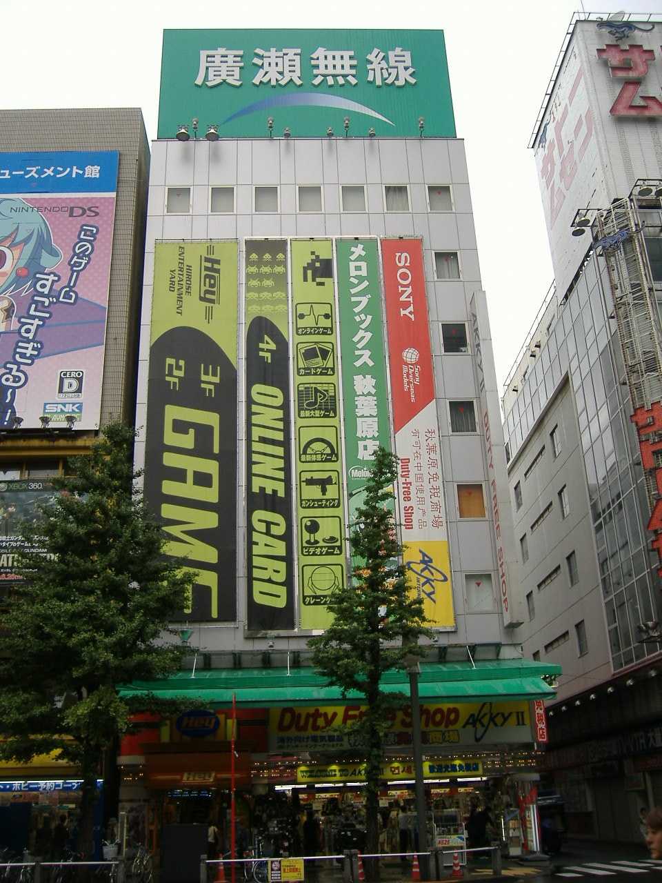 Hirose musen building (Akihabara, Japan)